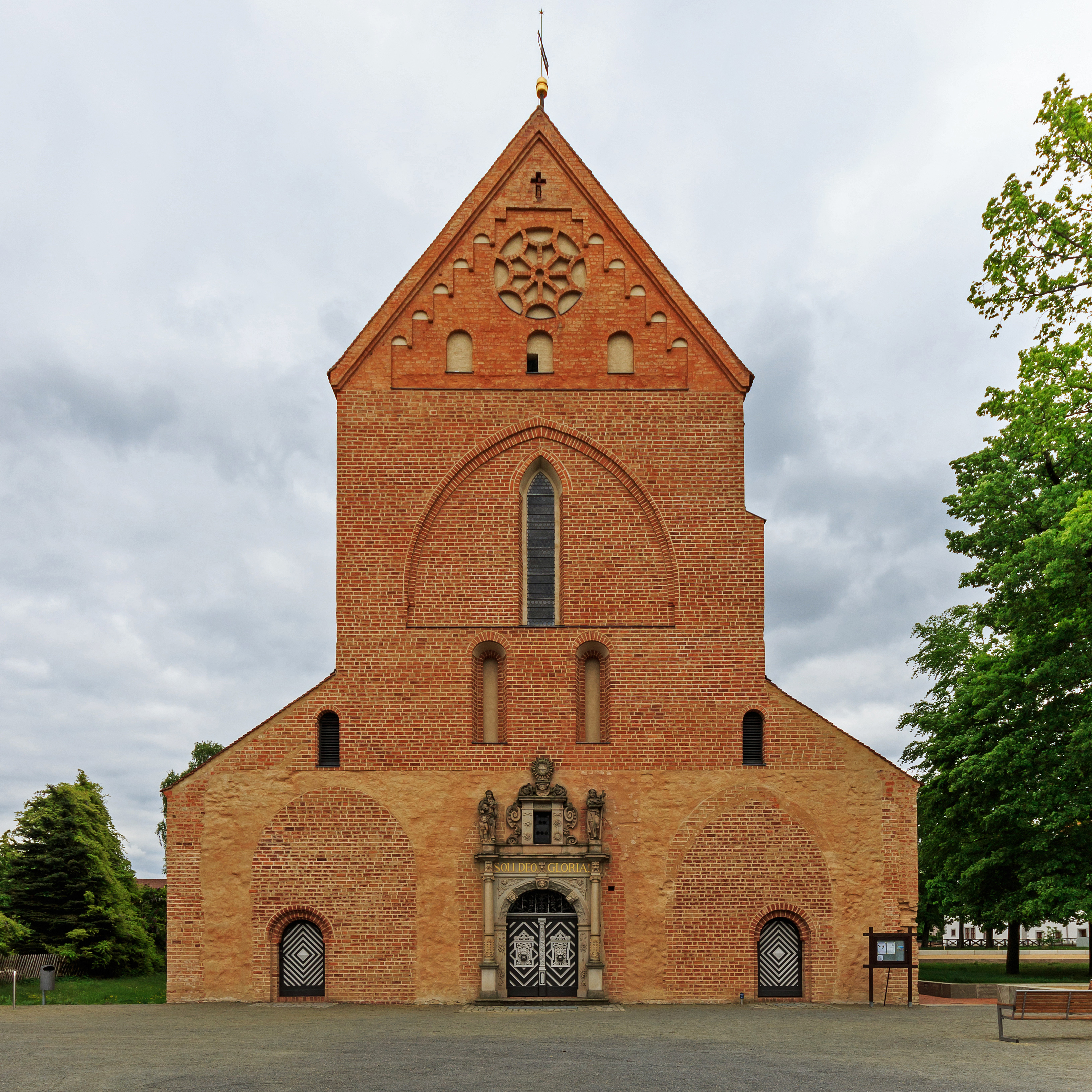 Doberlug-Kirchhain (Brandenburg, Germany): St. Mary Church